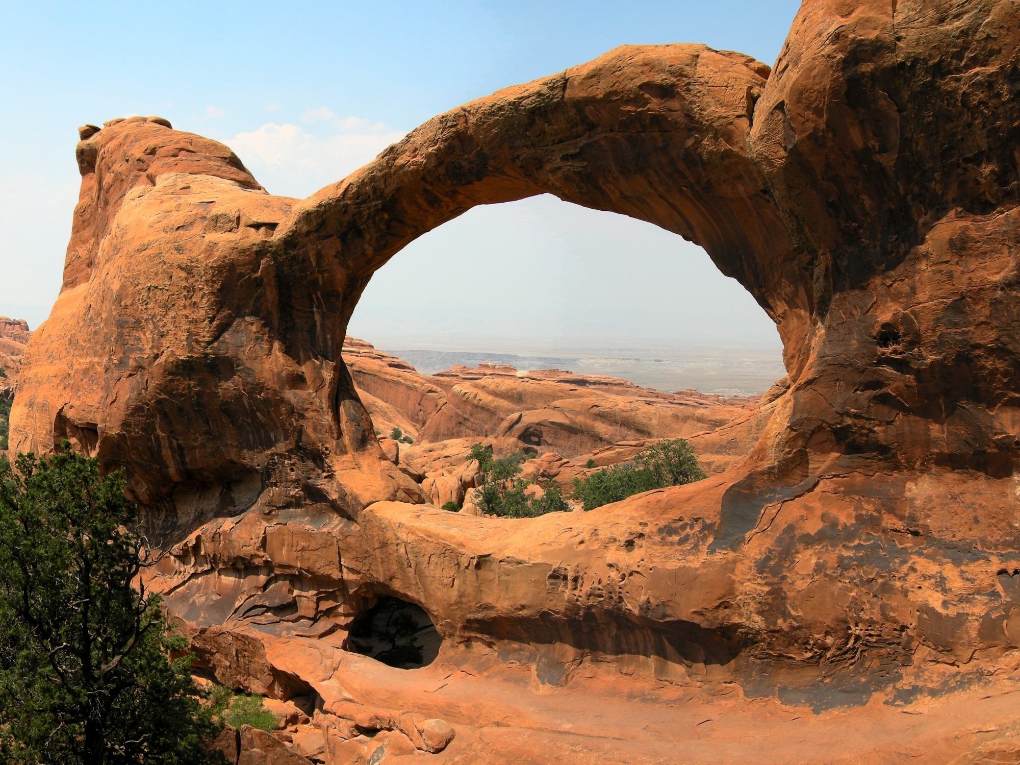 Double-O-Arch in Arches National Park in Southwestern USA